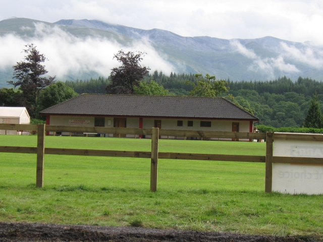 Lochaber Camanachd Club House & Pitch, Spean Bridge This ground, "Spean Bridge Stadium", is the home of Lochaber Camanachd: Camanachd is the Gaelic name for Shinty. Shinty (derived from the Scottish Gaelic sinteag although it is referred to as camanachd or iomain in modern Gaelic) is a team sport played with sticks and a ball. Shinty is now played almost exclusively in the Highlands of Scotland, and amongst Highland migrants to the big cities, but it was formerly more widespread, reaching as far as England. Closely related to Irish Hurling. May appear to the untutored southern visitor as an more enthusiastic form of hockey. Beyond are the Grey Corries (3000ft plus).